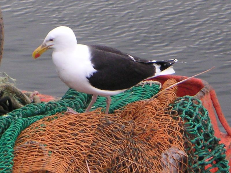 Great Black-backed Gull, Larus Marinus Author: Wojsyl, 2004